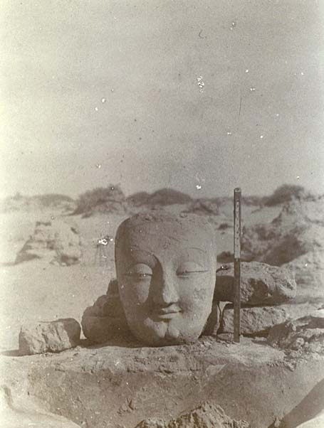 View of excavated Buddha head from ruin M.I.I, Miran, December 1906.